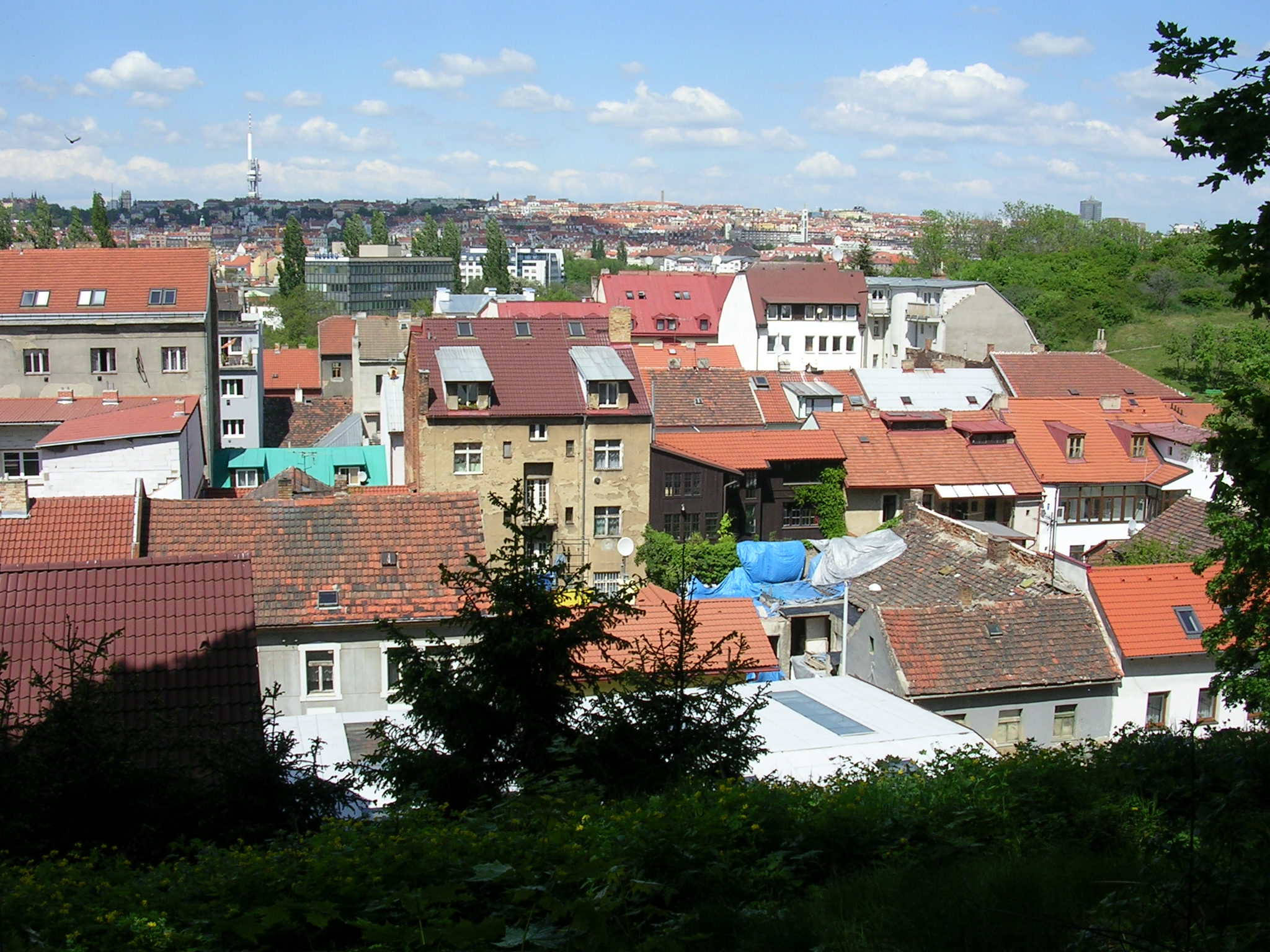 Michle, Prague, the Czech Republic.